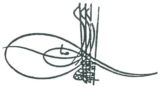 Tughra (i.e., seal or signature) of Ahmed I, Sultan of the Ottoman Empire (1603-1617). An explanation of the different elements composing the tughra can be found here.